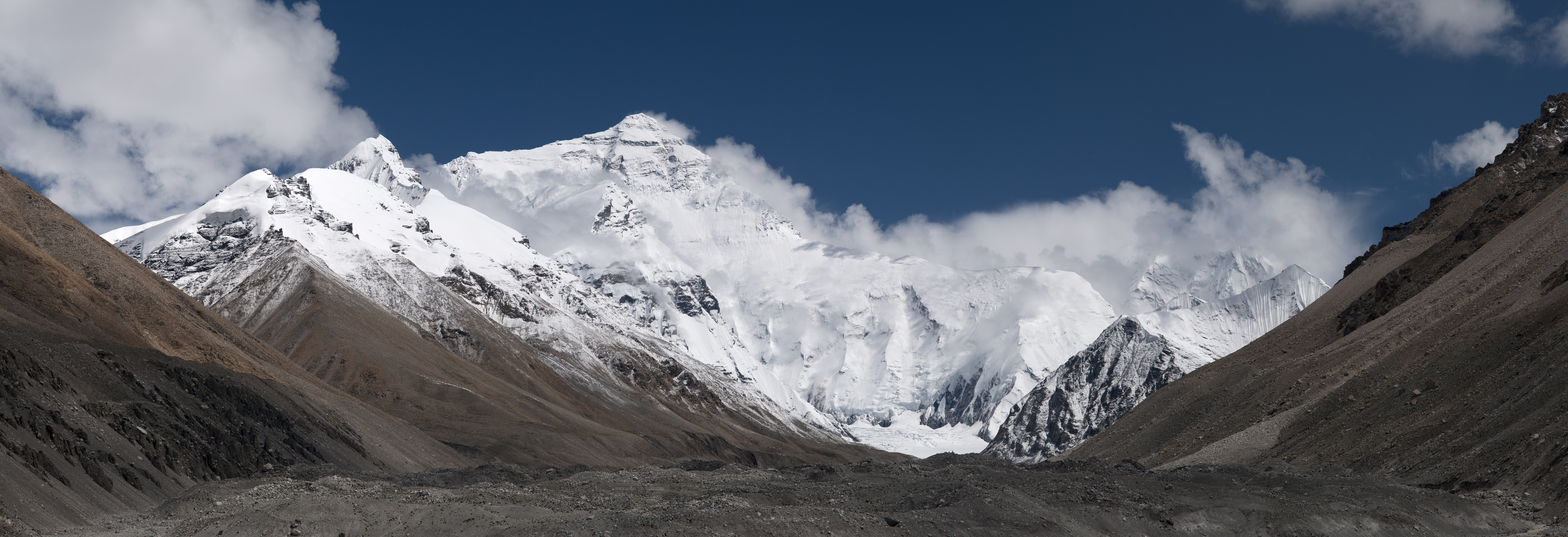 Mount Everest North Face as seen from the path to the base camp, Tibet, China.